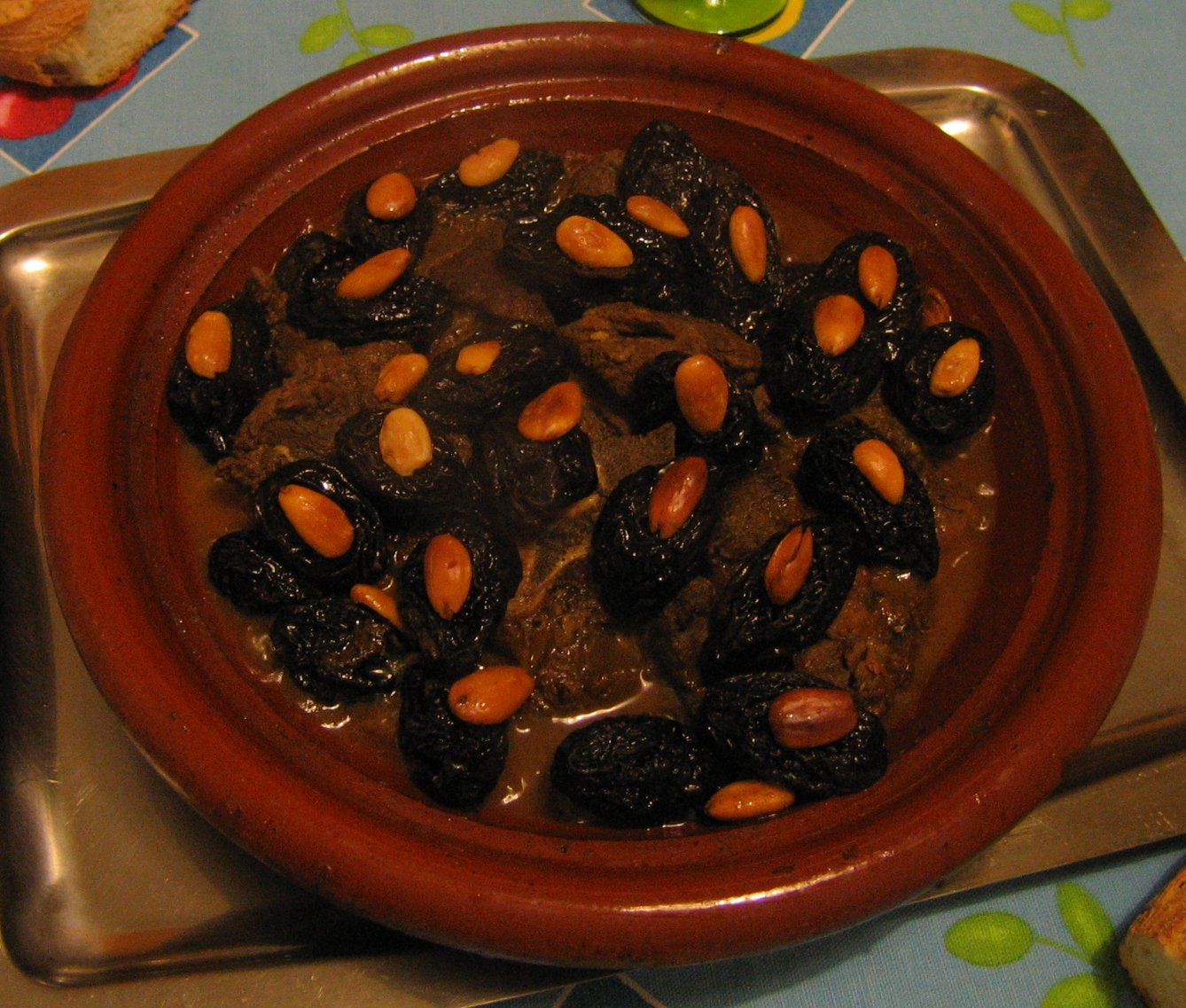 Tajine with calf, prunes and almonds.